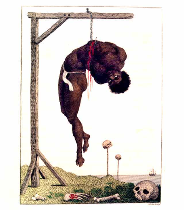 "A Negro Hung Alive by the Ribs to a Gallows" illustration by William Blake for Captain John Stedman, 1796. (See also: Aphra Behn).